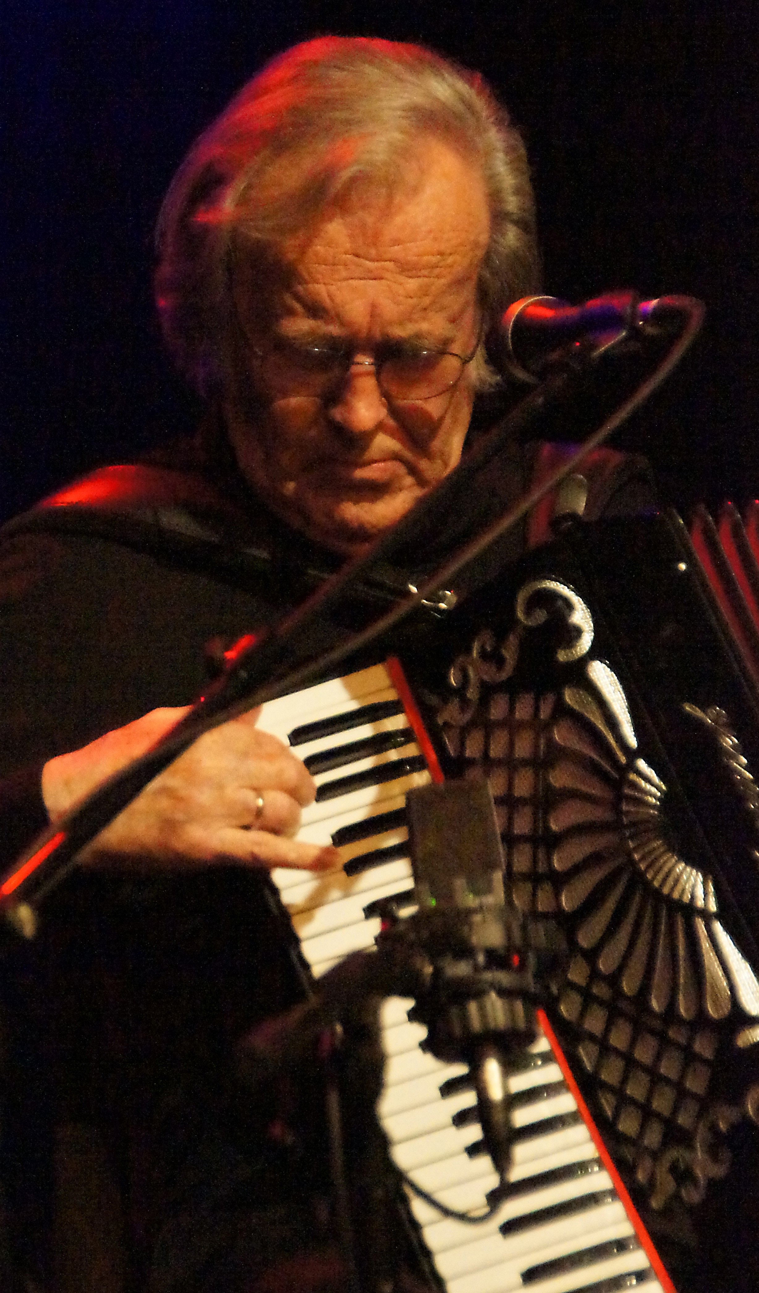 Viennese accordeonist Karl Hodina